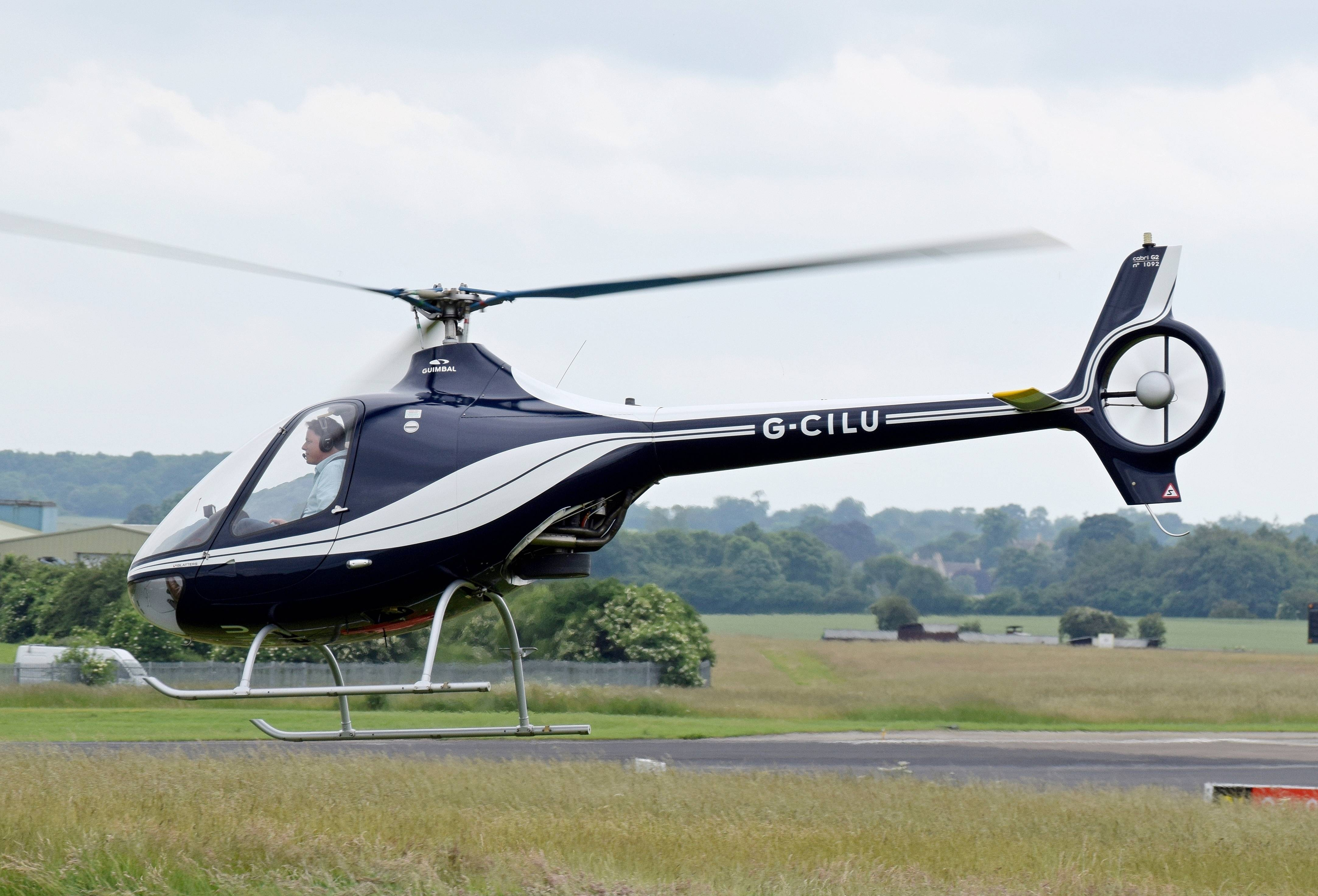 Guimbal Cabri G2 at Cotswold Airport, Gloucestershire, England. UK registration G-CILU. Date of build 2015.